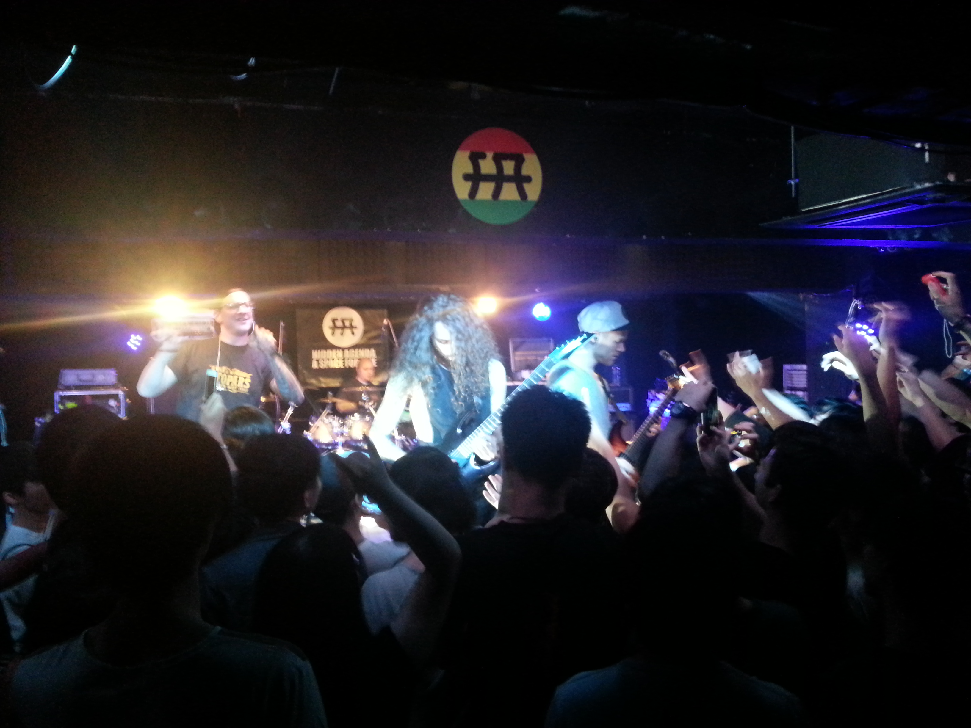 Dreamscape, live in concert, at Hidden Agenda, Hongkong